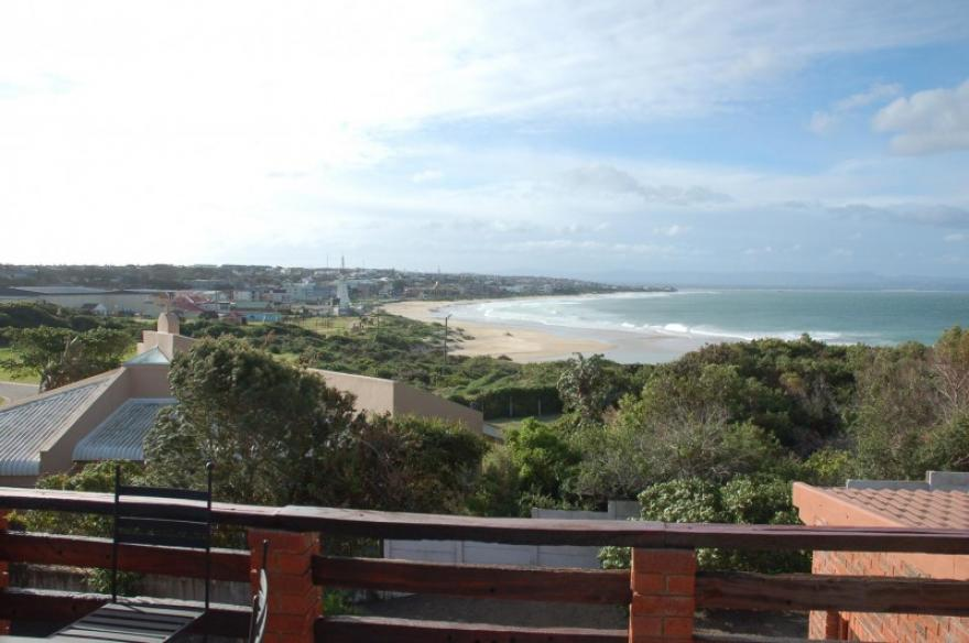 This is the best Jeffreys Bay Beach View.